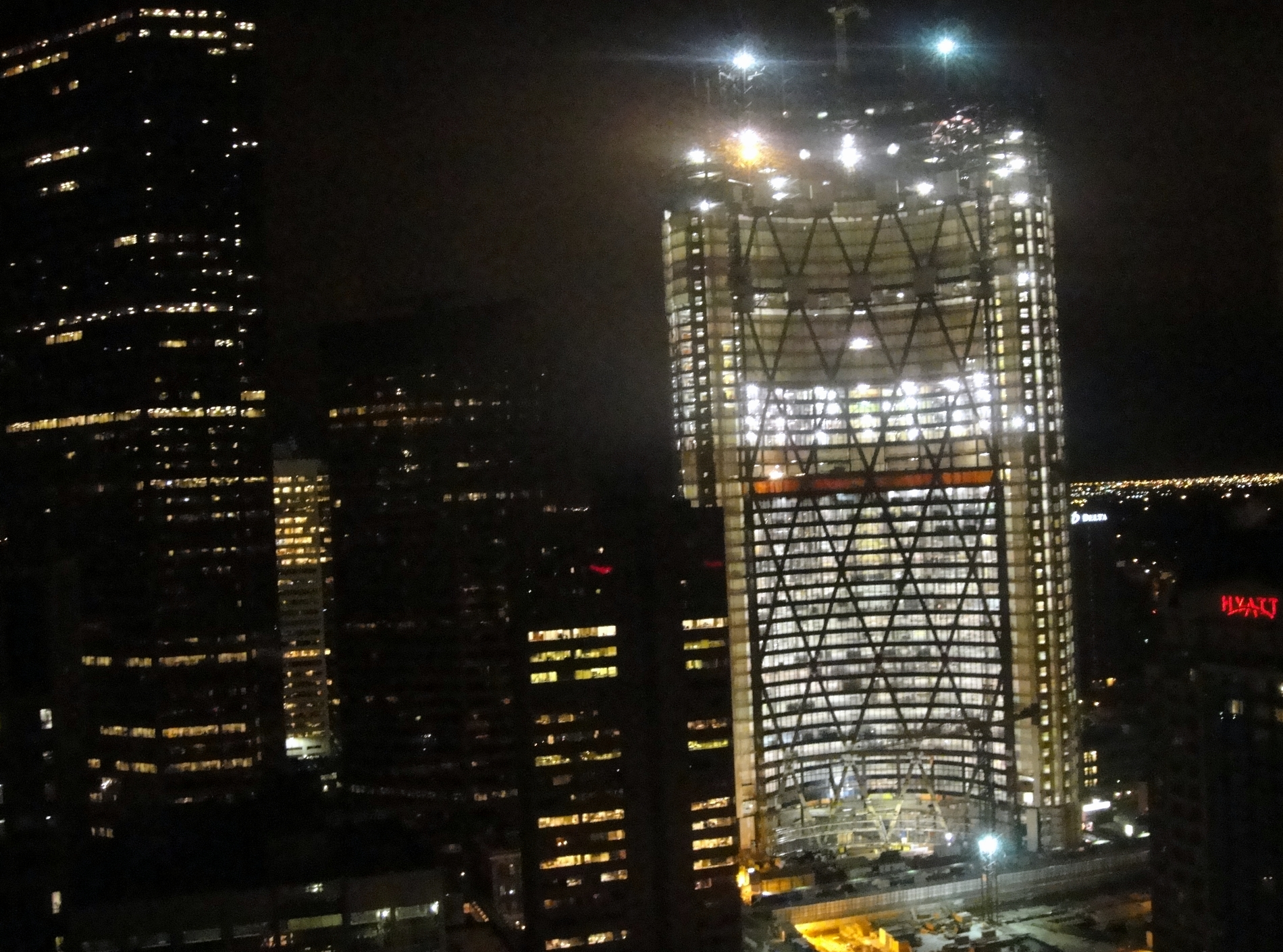 The Bow building under construction in June 2010. Calgary, Alberta, Canada.